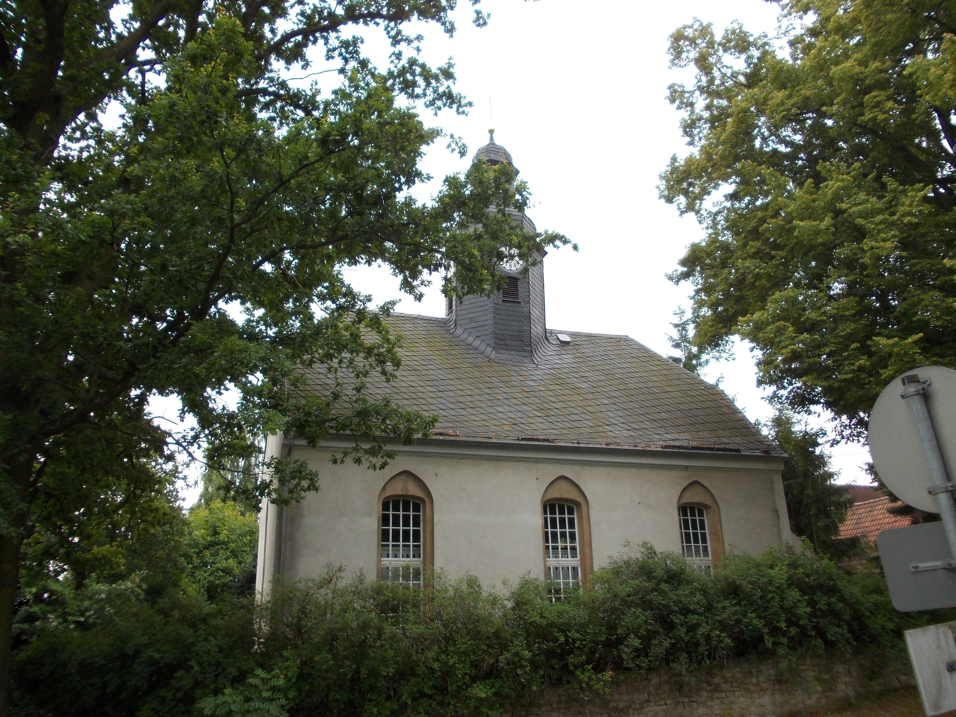 St. Catherine's Church in Rudelswalde (Crimmitschau, Zwickau district, Saxony)